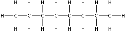 Full structure of octane, showing all atoms & bonds.